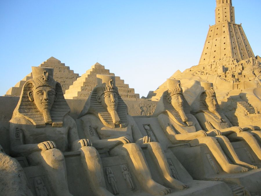 Sand Art at Sand World Festival 2003